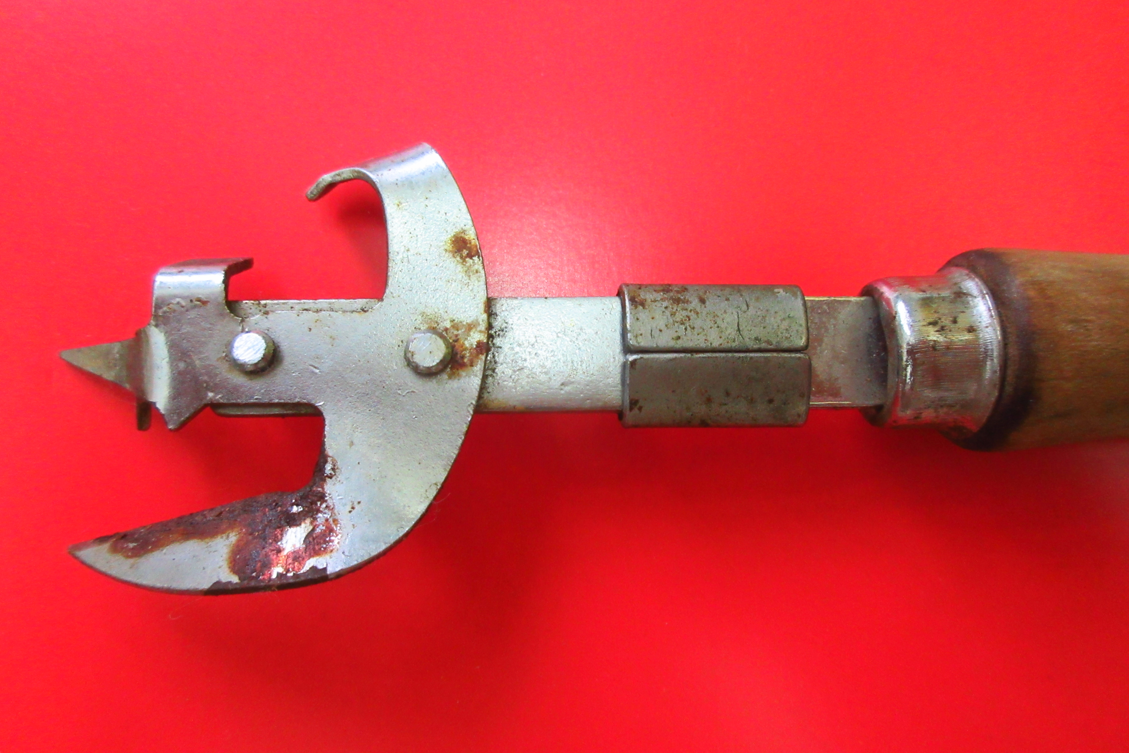 HK 開罐頭刀 Fork sharp can opener October 2018